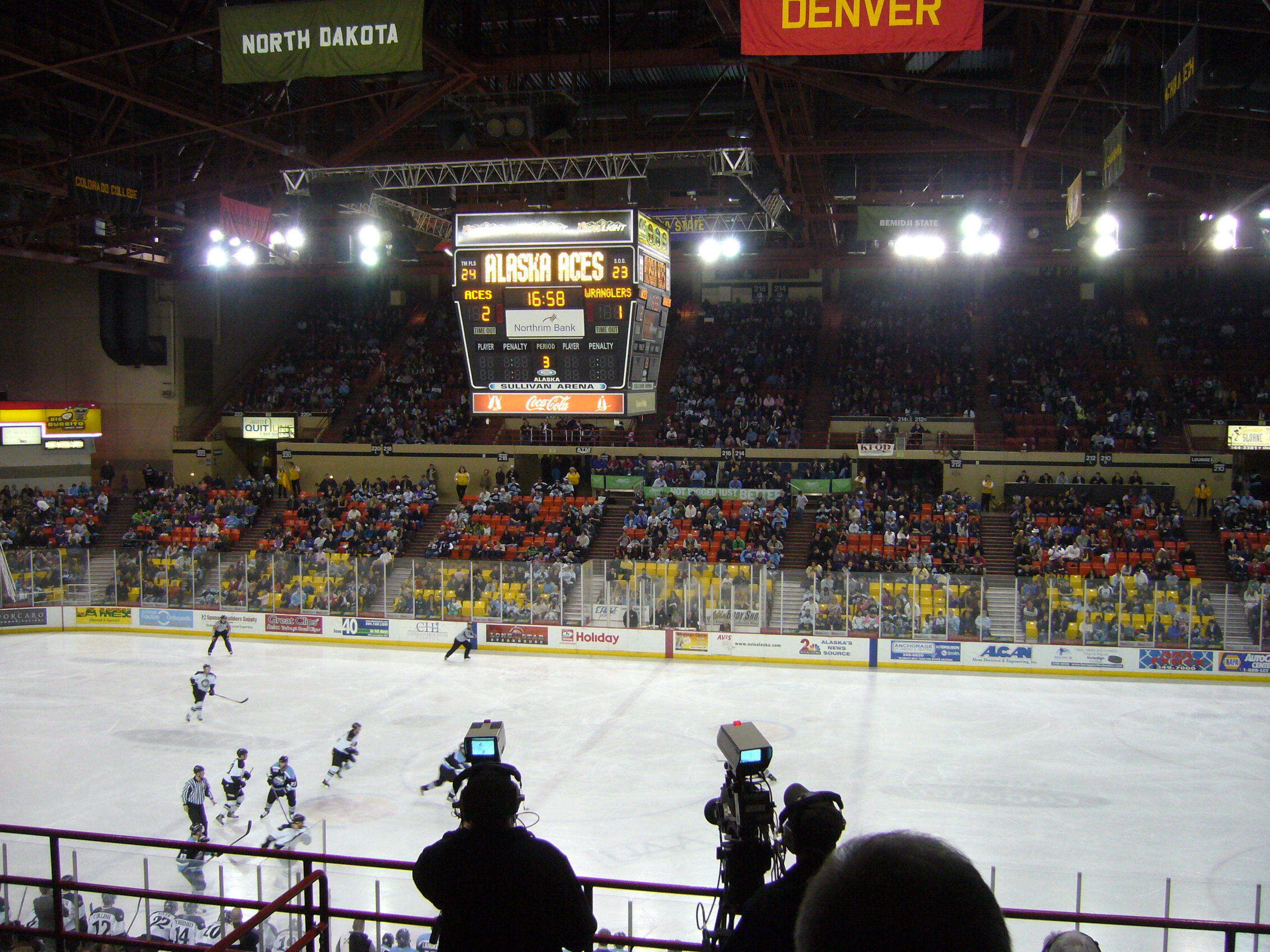 Sullivan Arena during an Alaska Aces-Las Vegas Wranglers hockey game in 2011.